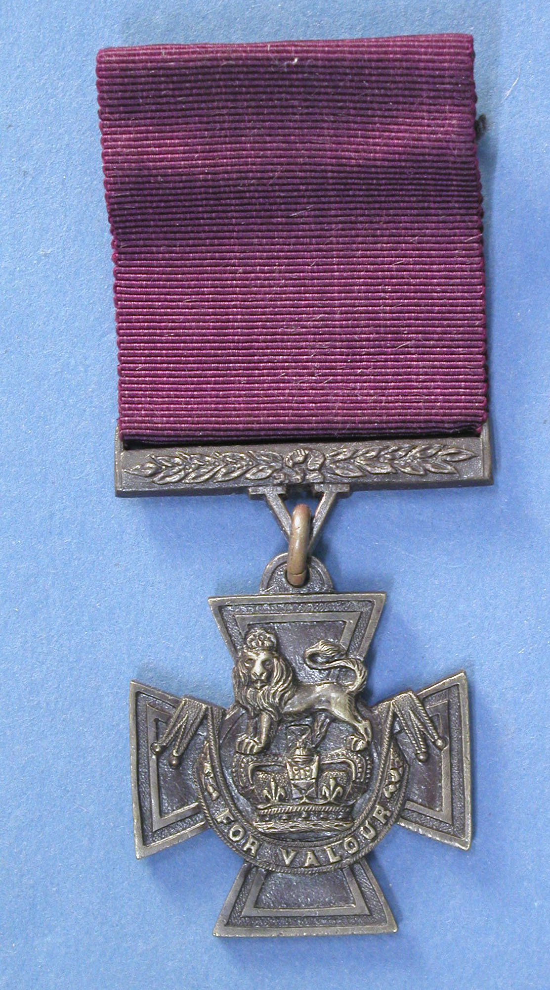 Victoria Cross medal and case, James Crichton, WW1